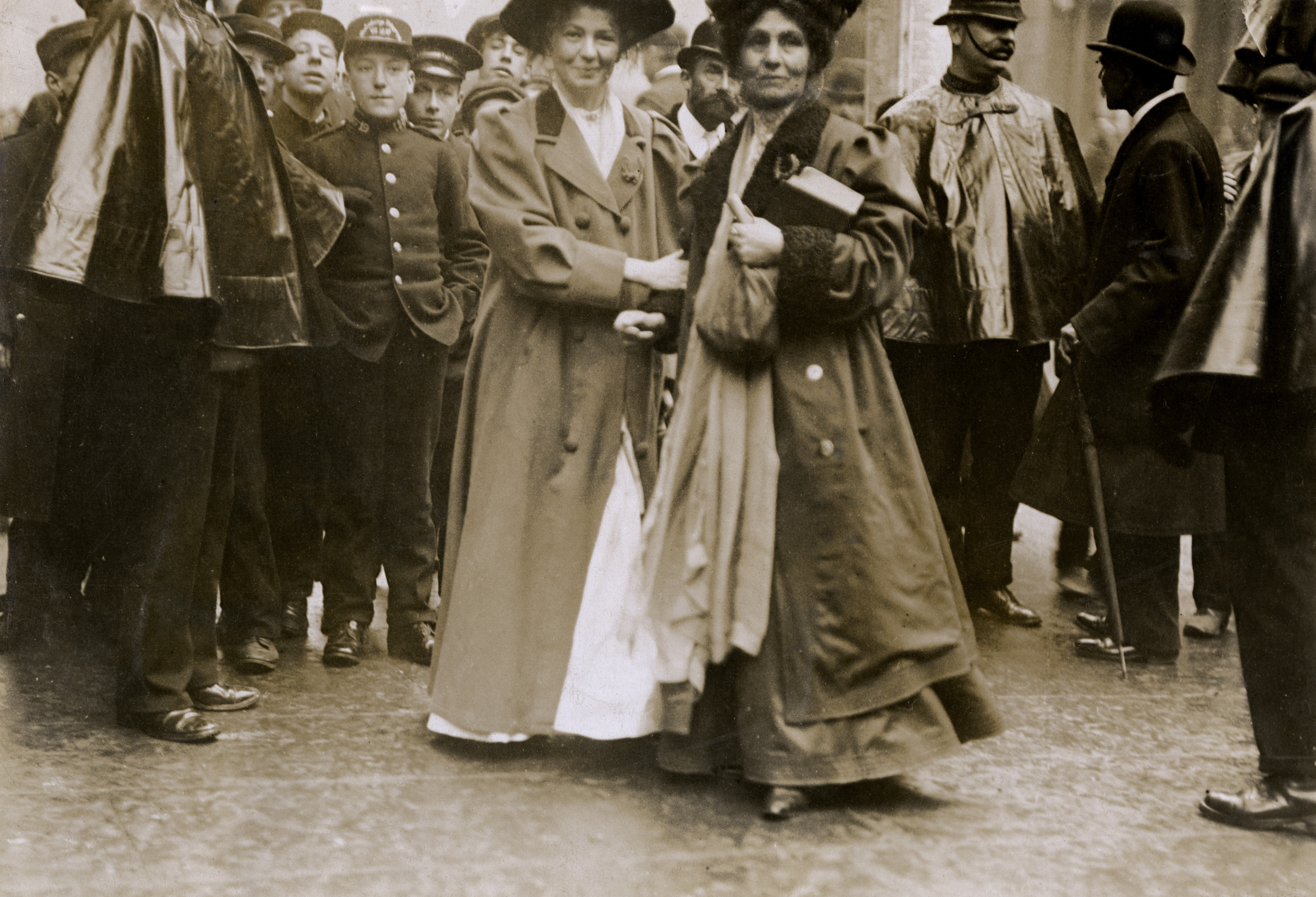 7JCC/O/02/120 Photograph, printed, paper, monochrome, Emmeline and Christabel Pankhurst standing together in the street, in front of a crowd of men including several policemen; printed inscription on reverse 'This photograph is copyright and must not be published in any form except at the ordinary fee of 10/6. Illustrations Bureau, 12 Whitefriars St, EC'